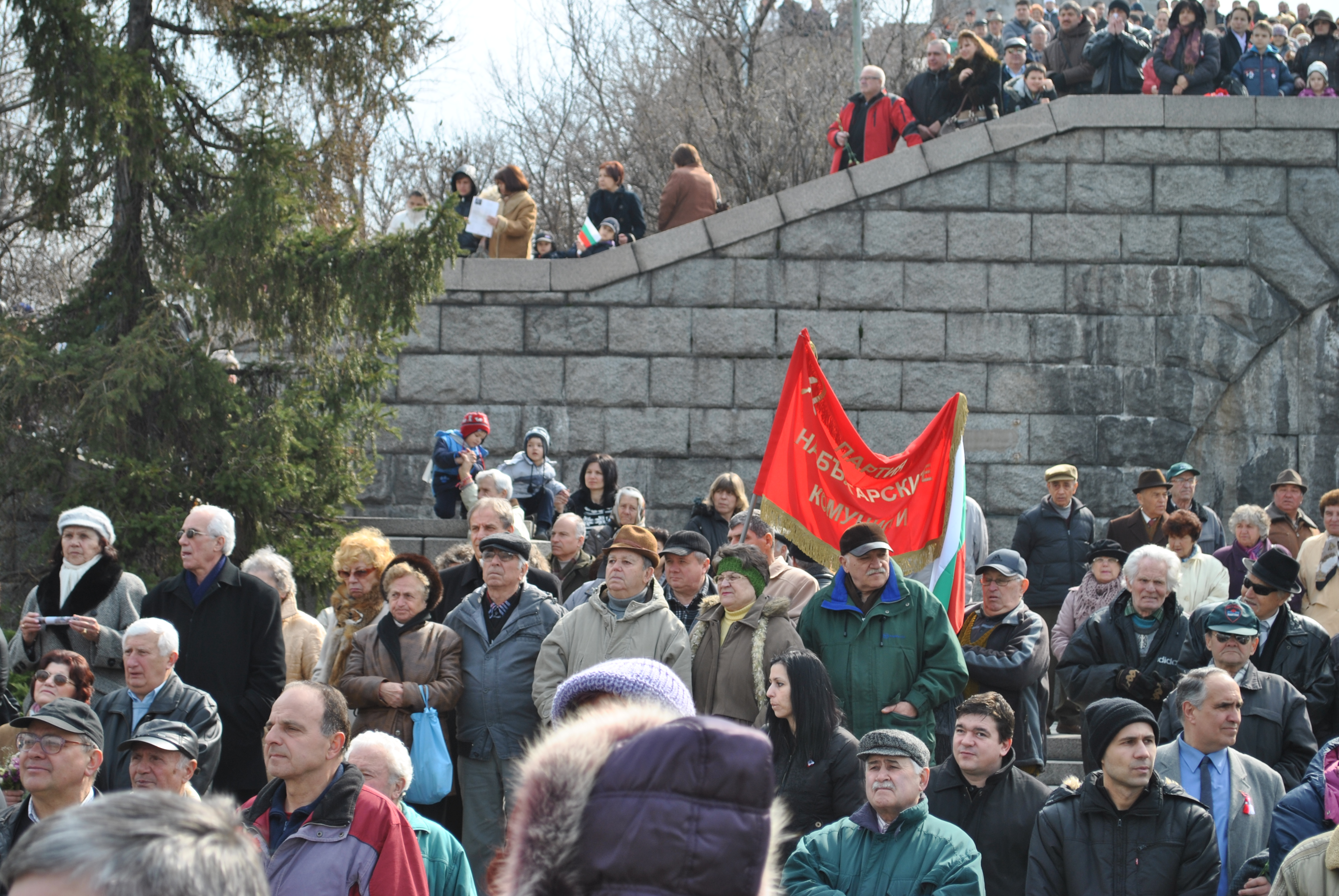 Celebration of 3rd of March 2013, Plovdiv, Bulgaria